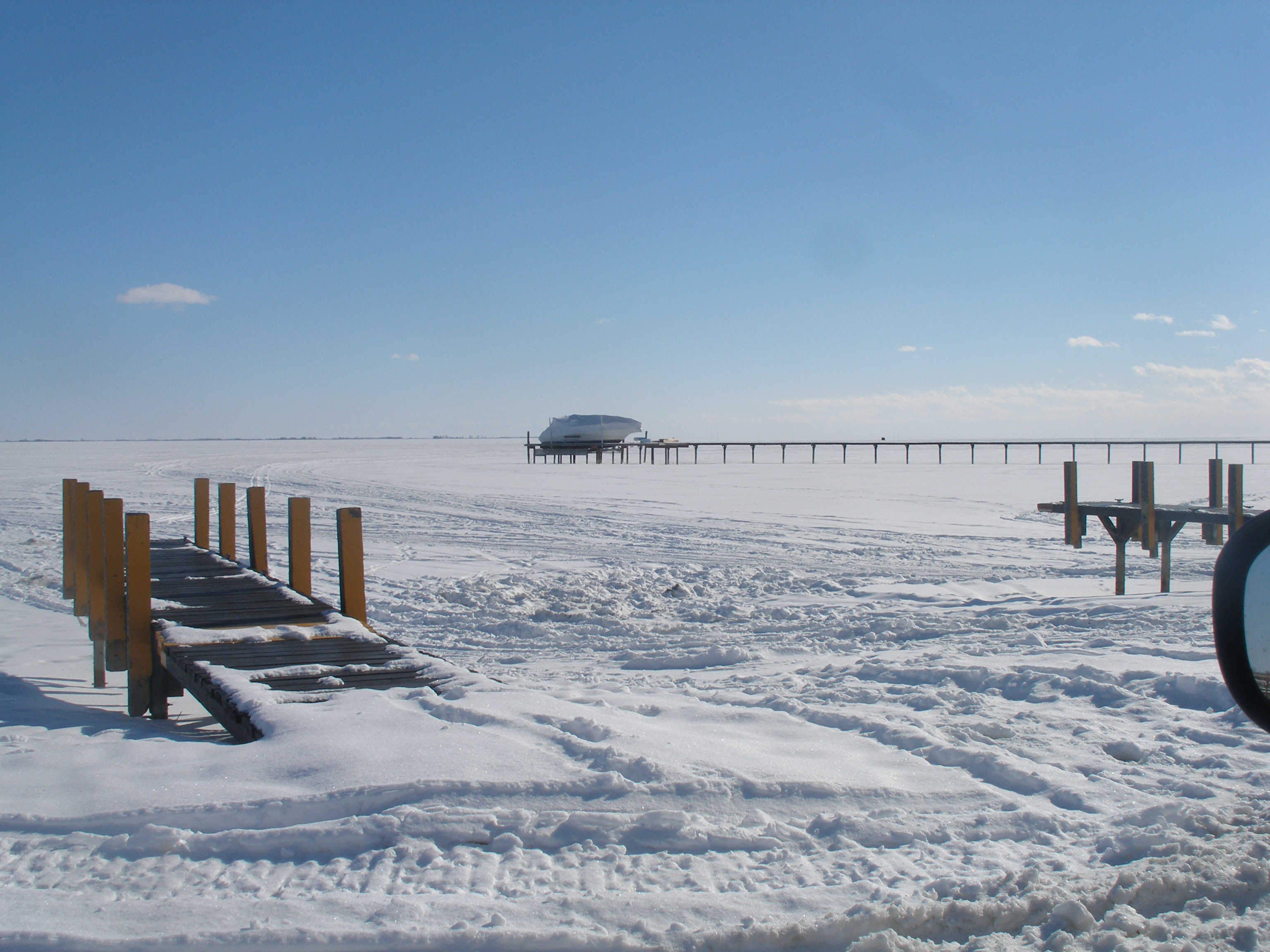 Lake Saint Clair, frozen, as seen from Brandenburg Park in Chesterfield Township, Michigan. Feb 8th, 2011